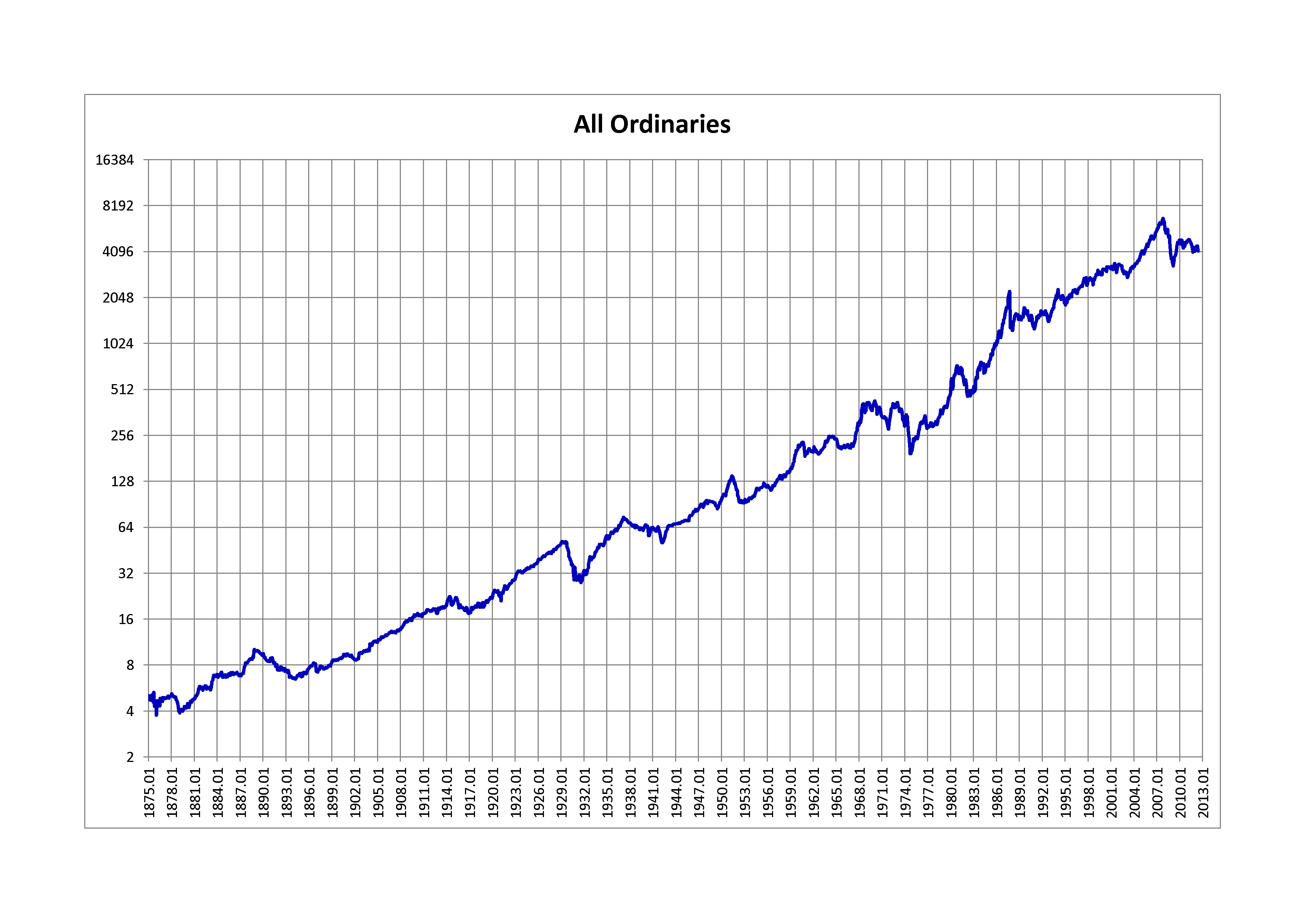 All Ordinaries from January 1875 to May 2012 (monthly closings)